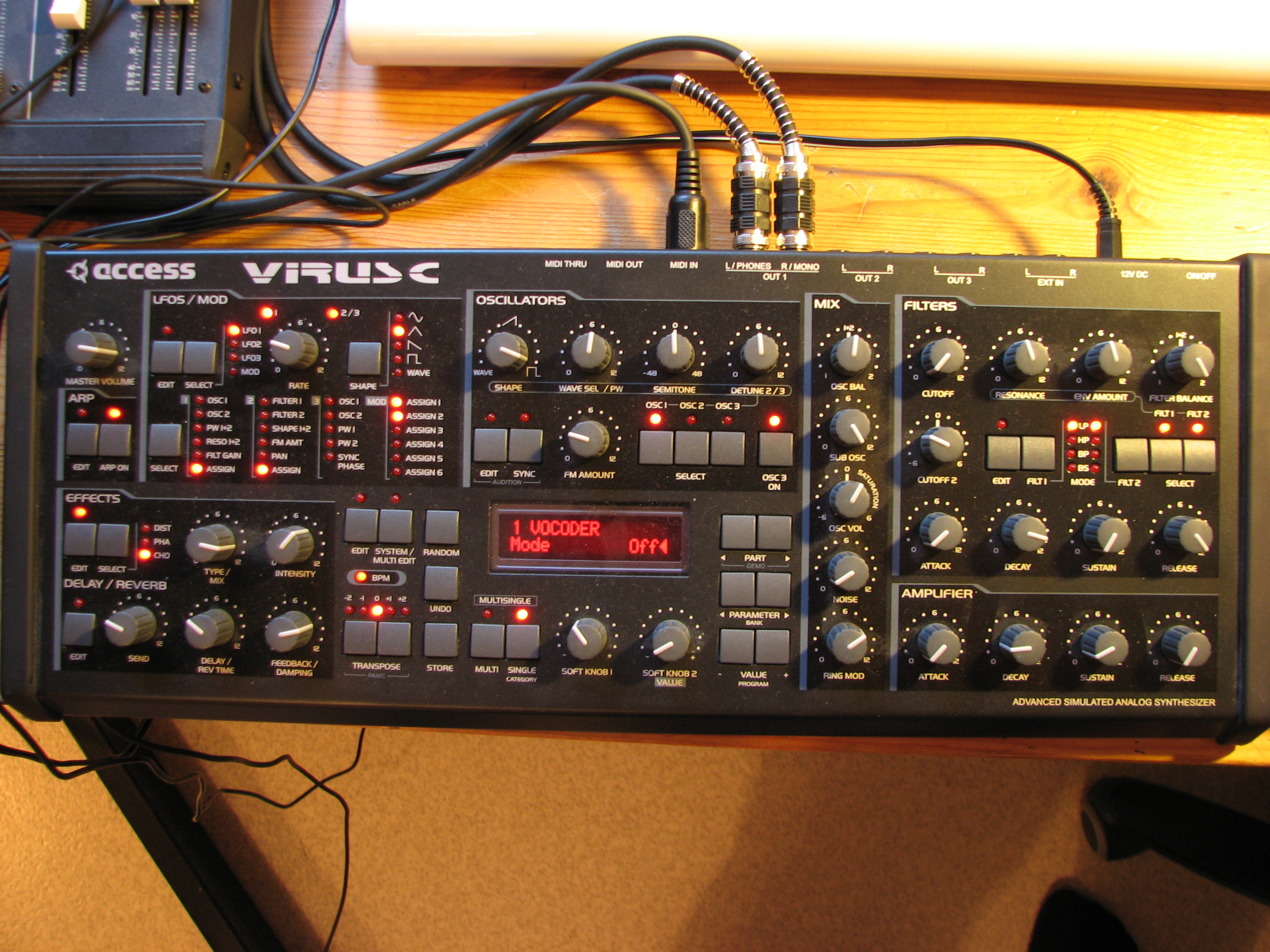 Access Virus C